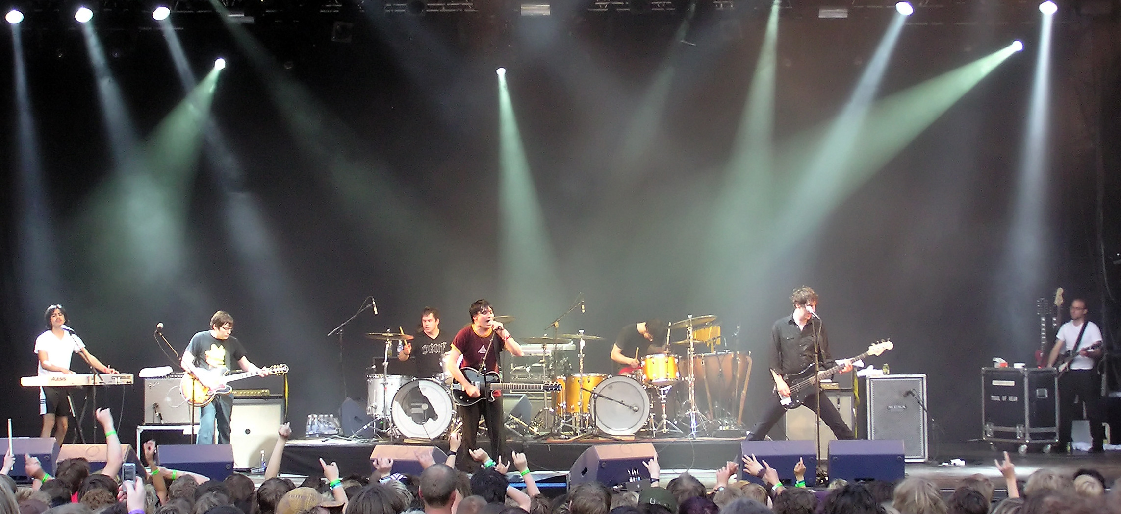 ...And You Will Know Us by the Trail of Dead (live) at Quart Festival 2005, Norway.